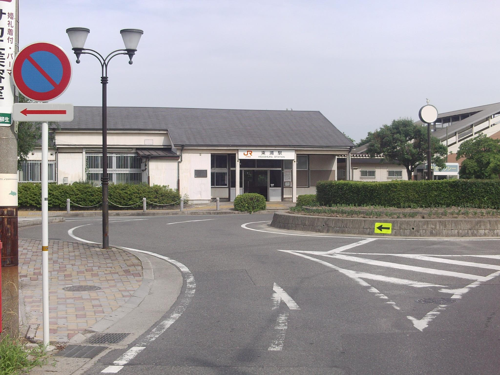 Aichi prefectural road No.463 in Fujie, Higashiura-cho, Chita-gun, Aichi. Starting point, Higashiura station.